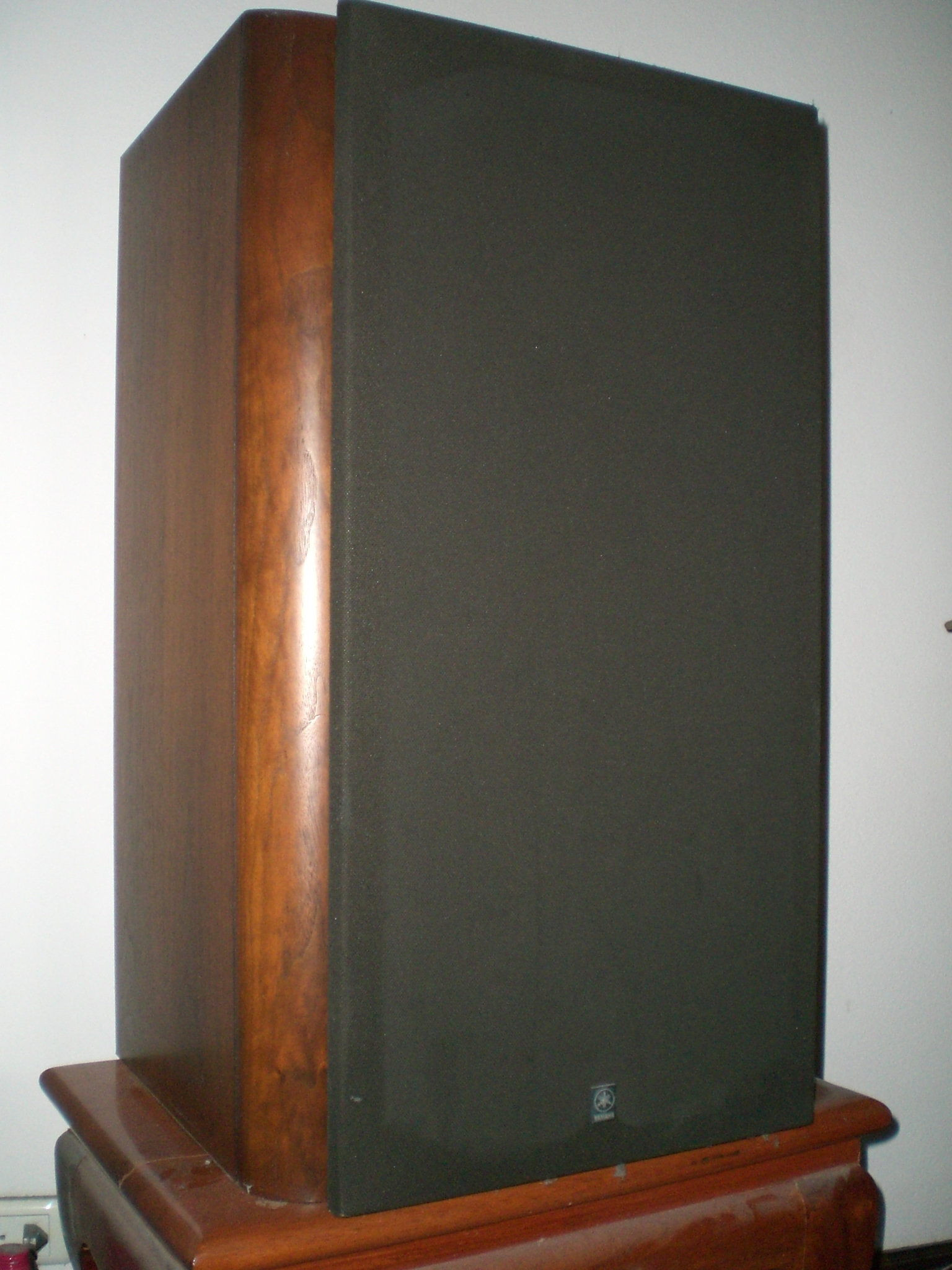 Yamaha NS-2000 Speaker, front view with cover on.